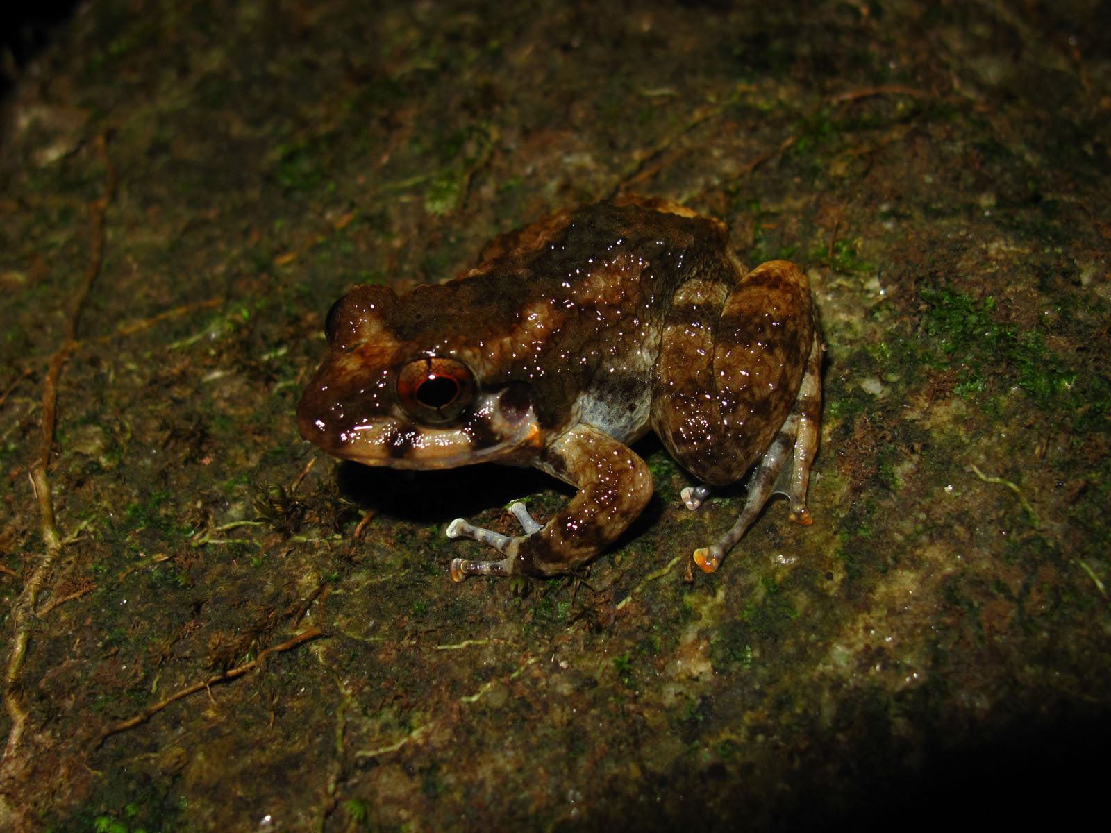 Ingerana tasanae from Thailand